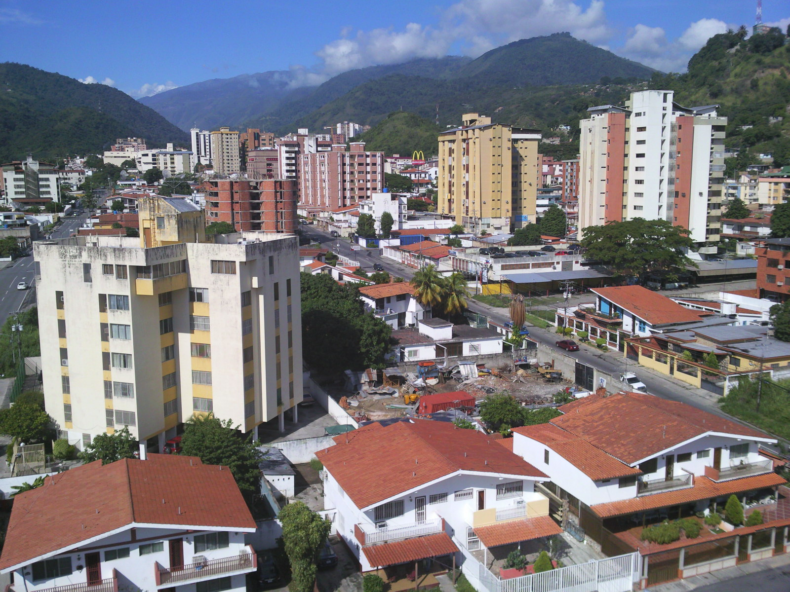 Valera, Las Acacias place and Momboy Valley.